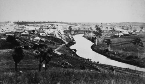 An early view of Ipswich, Queensland, showing the showing buildings, houses, unsealed roads, and the Bremer River. A number of grasstrees are visible in the foreground.